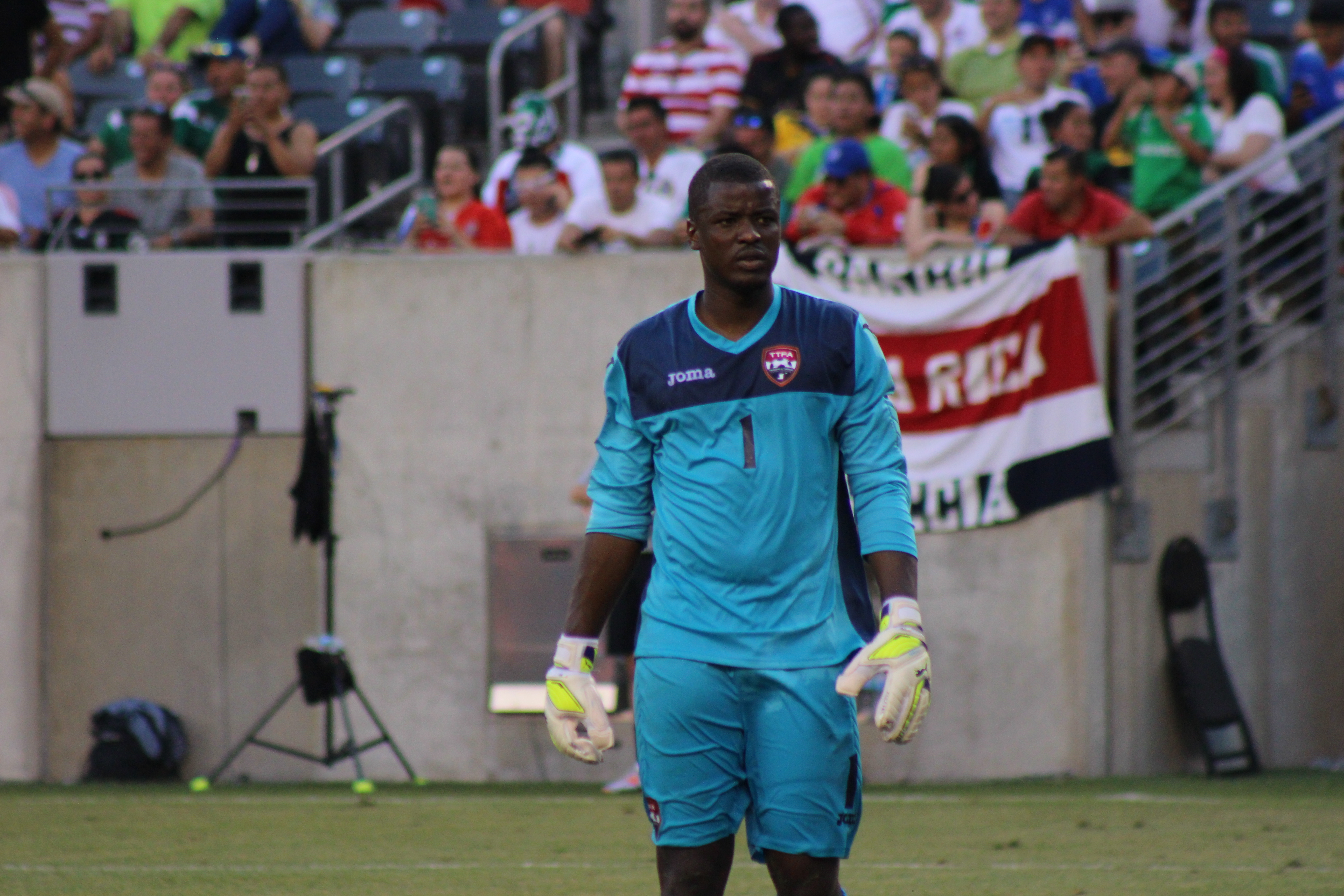 Marvin Phillip